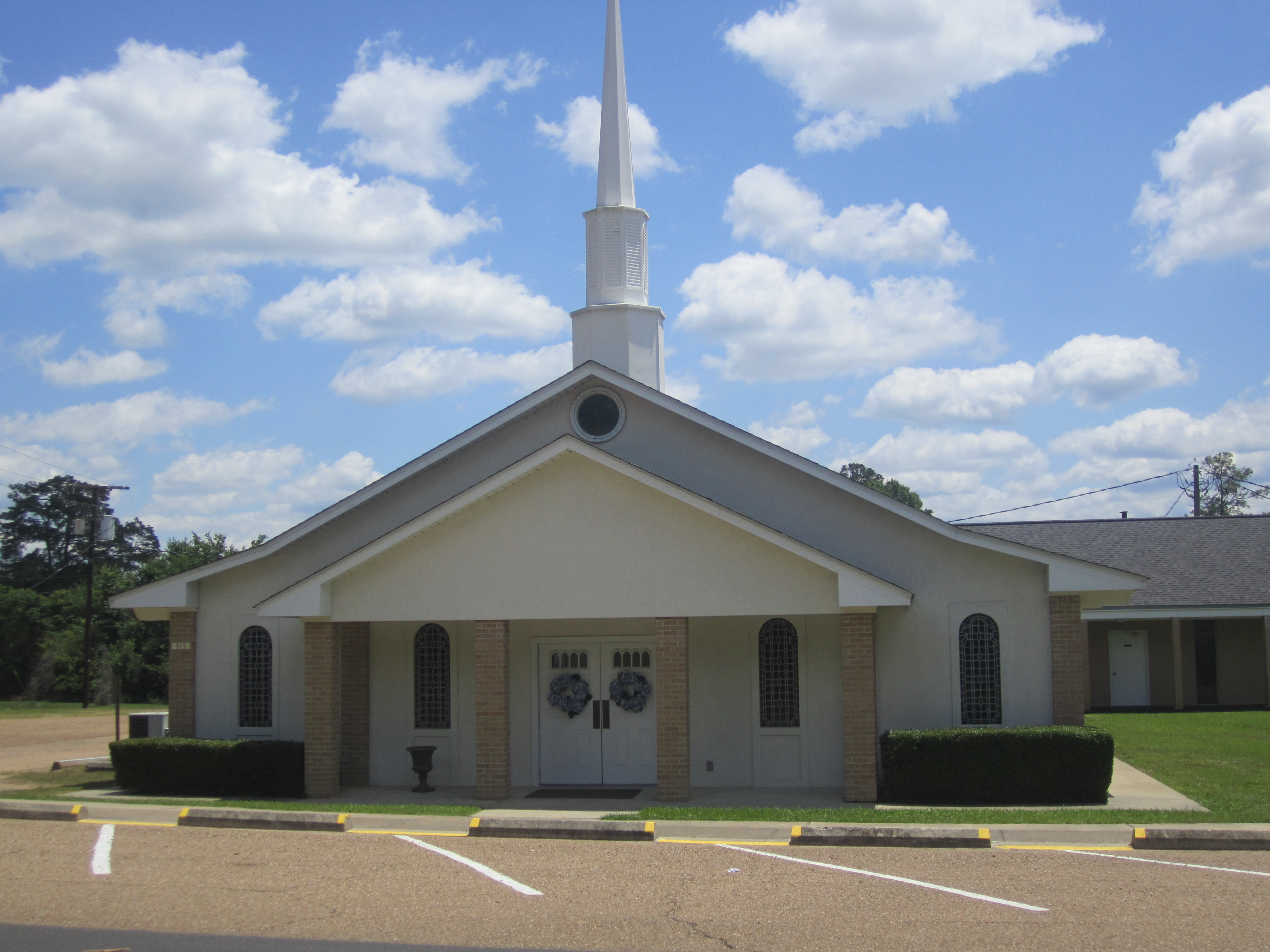 I took photo with Canon camera in Caldwell Parish of Grayson Baptist Church.